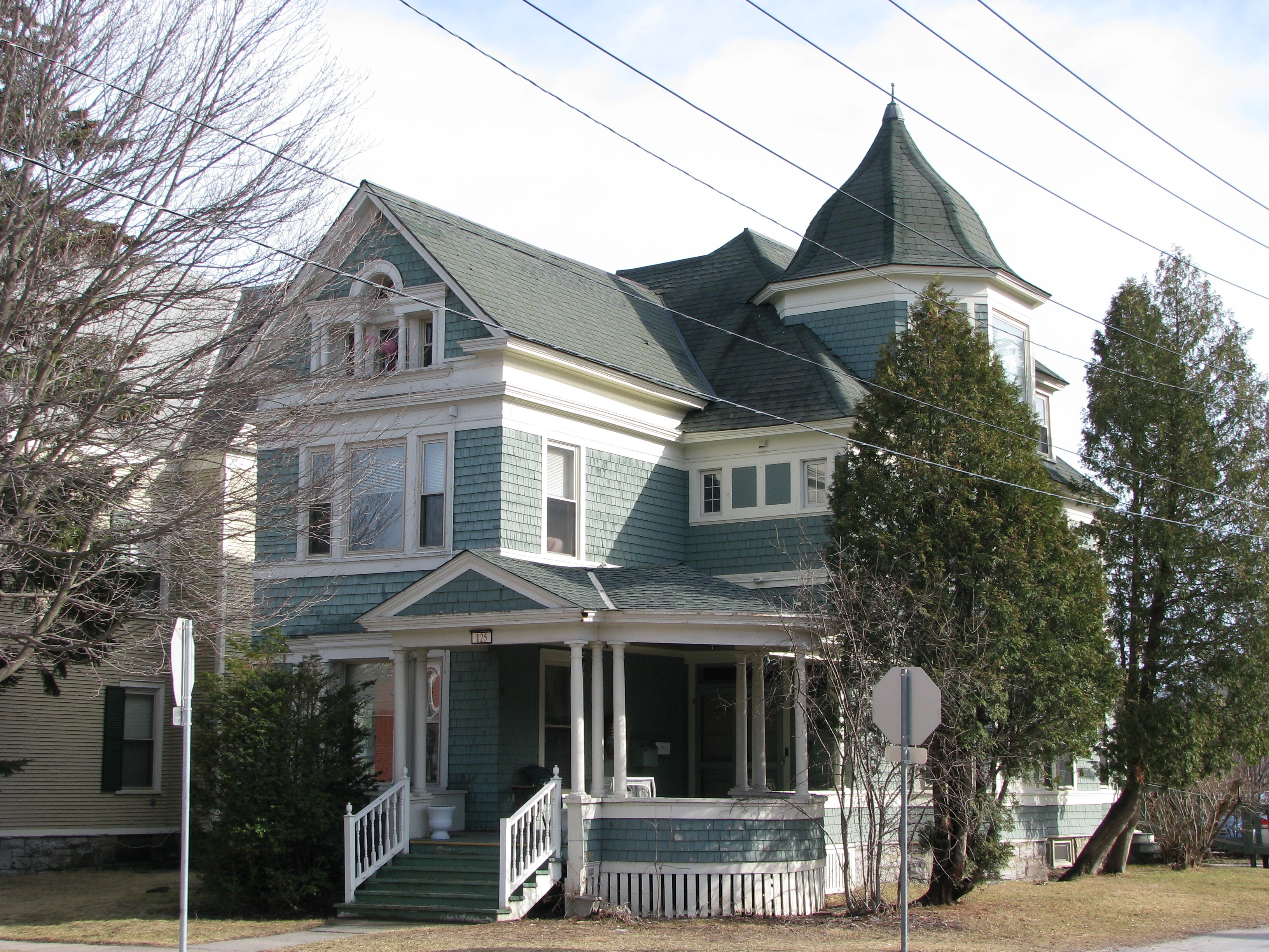 125 Court Street, Plattsburgh, New York. Part of the Court Street Historic District